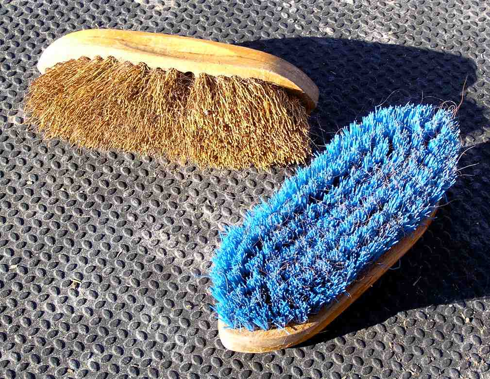 Stiff-bristled "dandy" brushes, suitable for grooming horses. The blue brush has synthetic bristles, the gold brush has natural rice bristles, which do a better job of lifting dirt and dust, but also wear out faster.